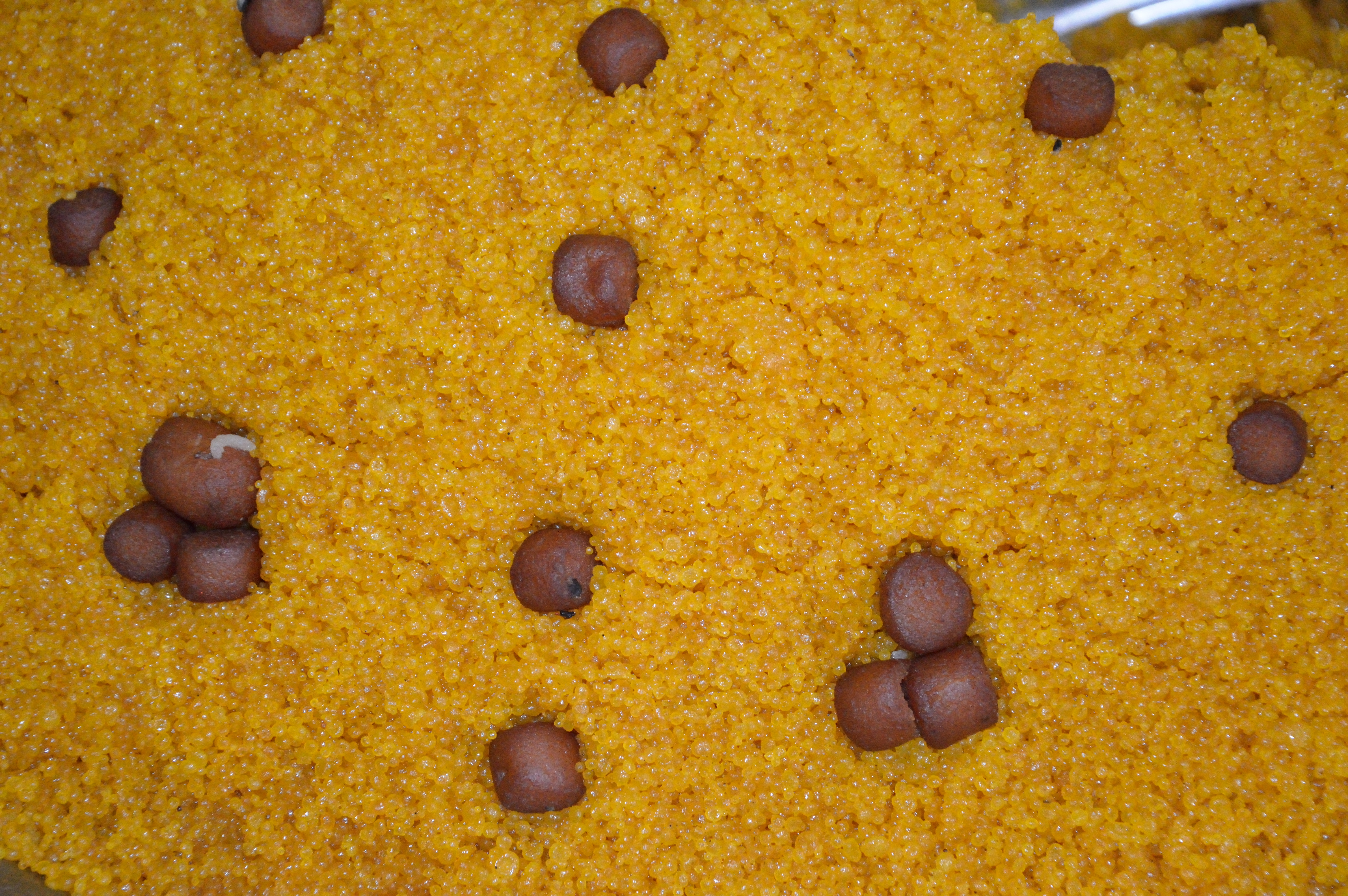 Photographed at the 'Adi Langcha House' on 'Asian Highway', Saktigarh, Bardhaman.